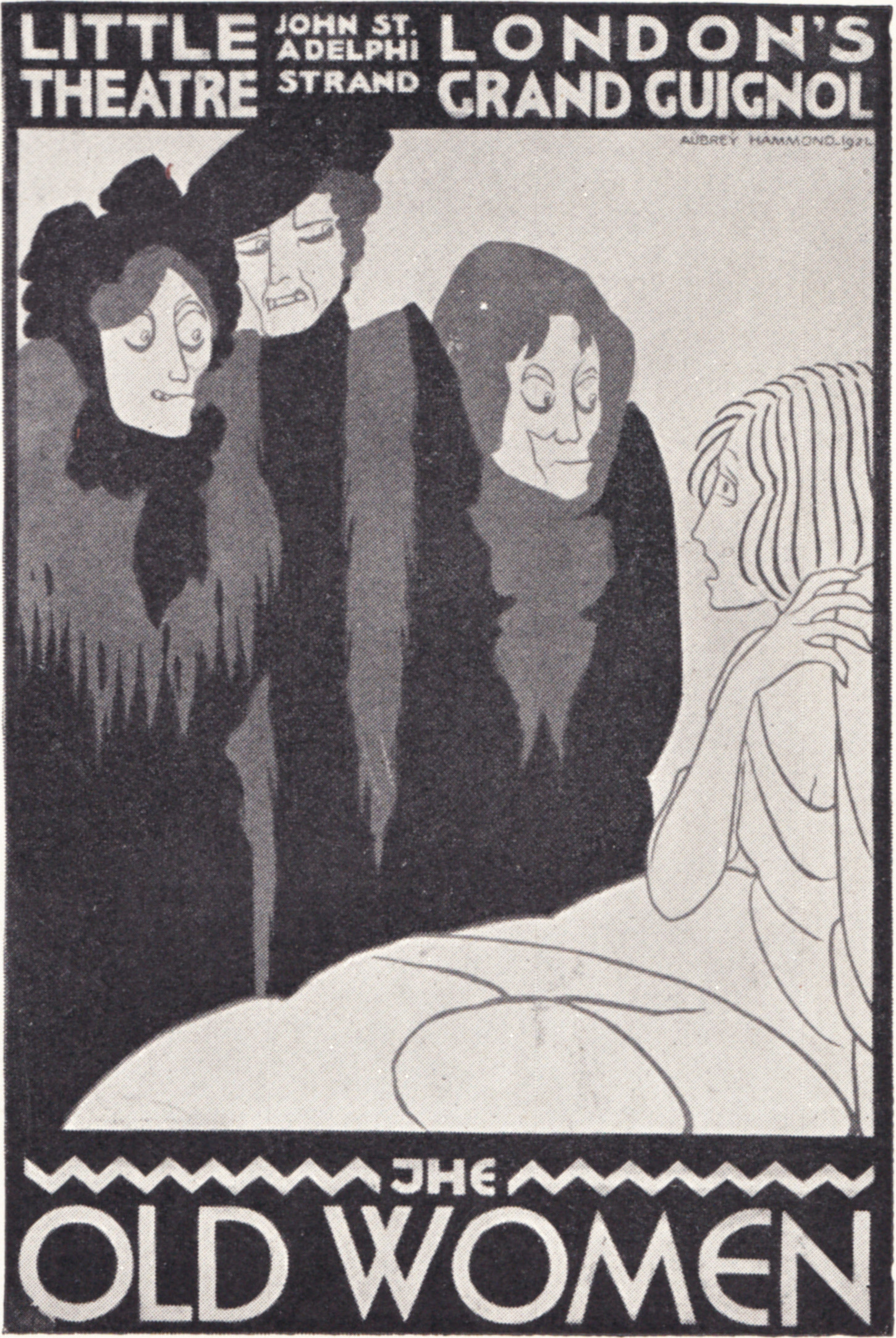 Black-and-white reproduction of a poster by Aubrey Hammond.